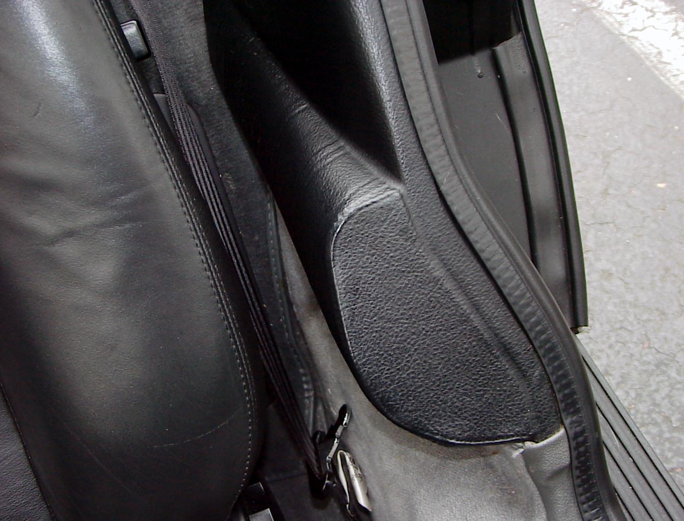 De Lorean DMC-12, Later style one-piece side bolstering. I am releasing this image under GFDL licensing